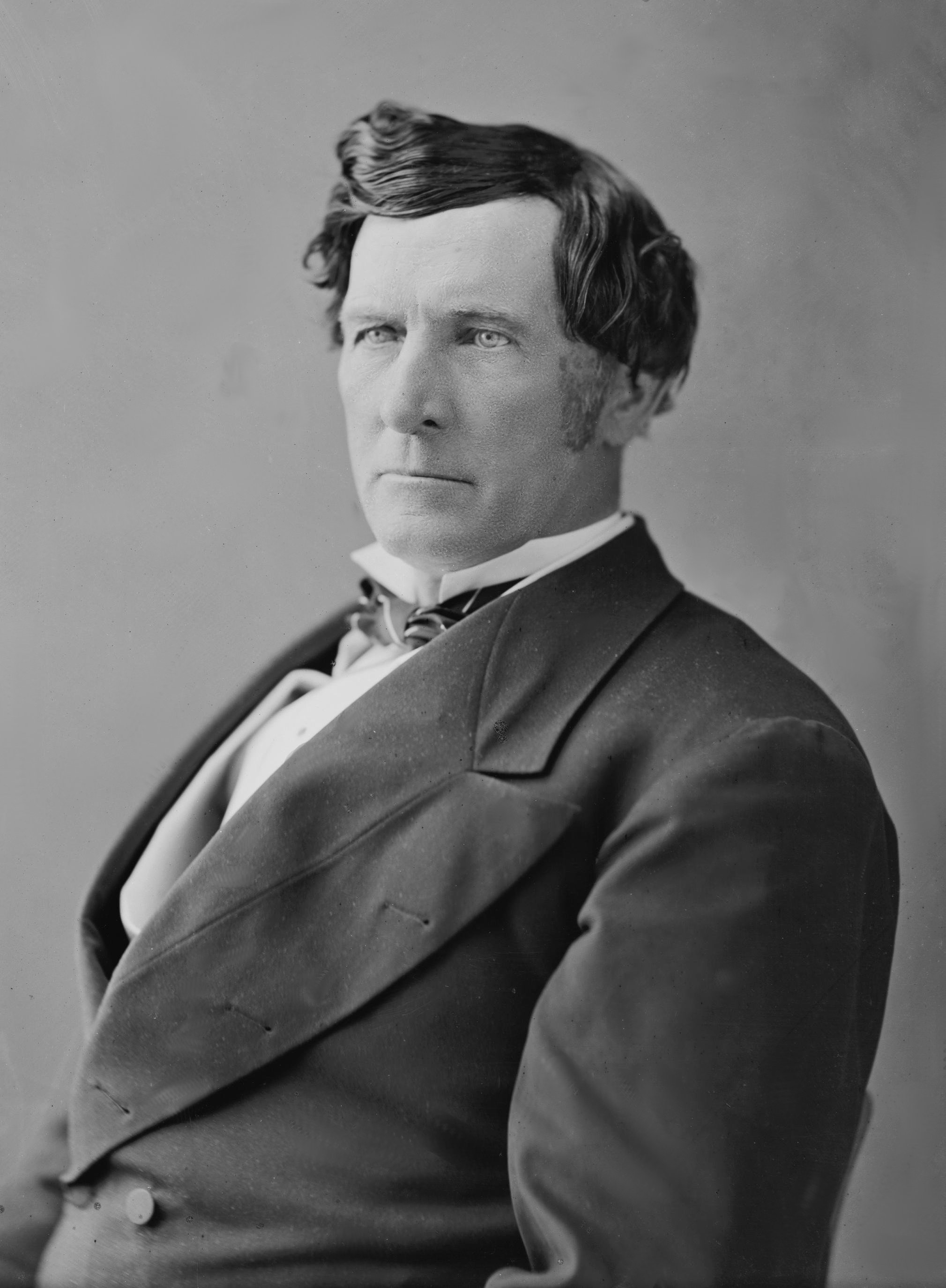 John Winfield Wallace. Library of Congress description: "Wallace, John Winfield of PA".